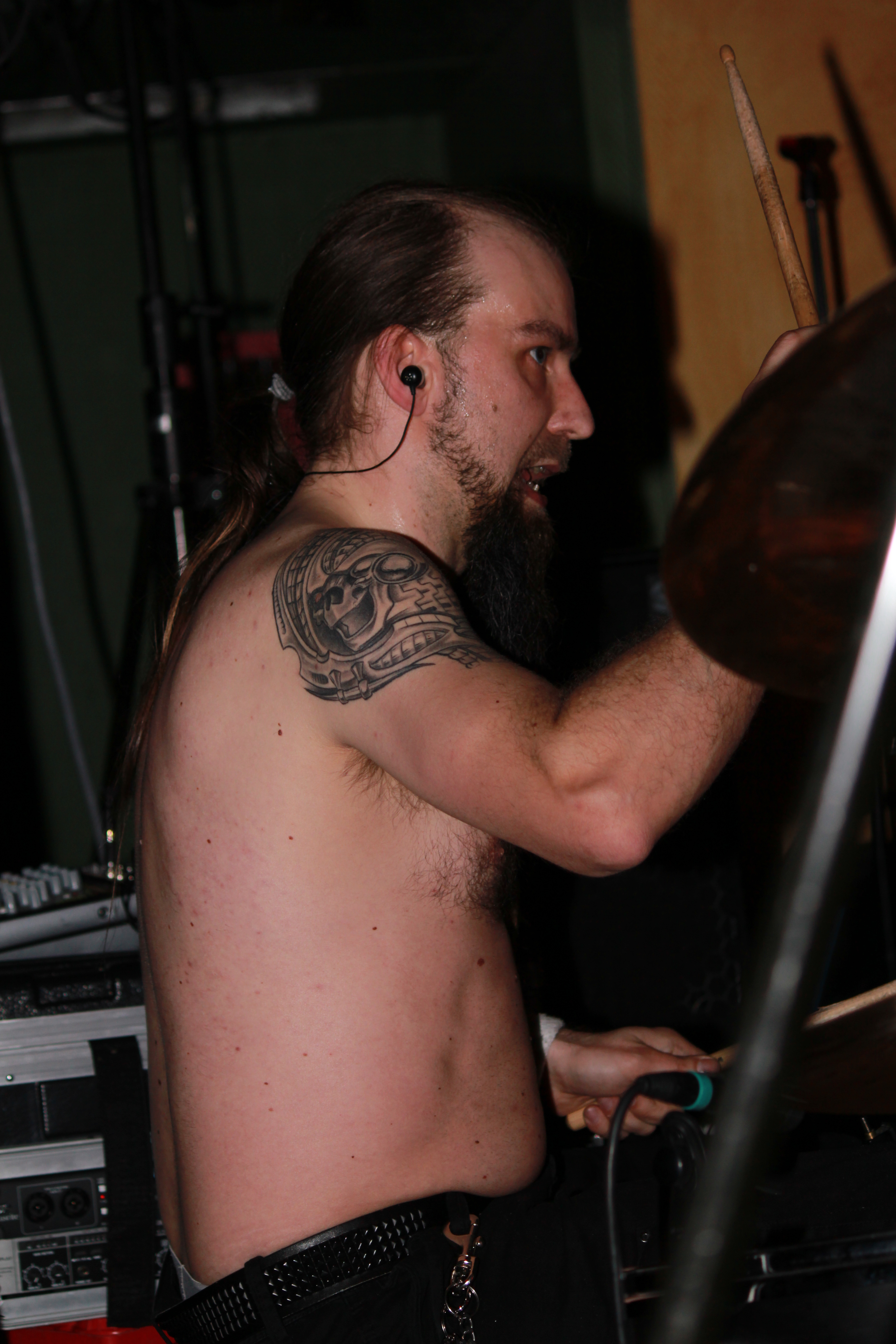 Metal band Scar Symmetry, live at King's Club, Avesta, Sweden.